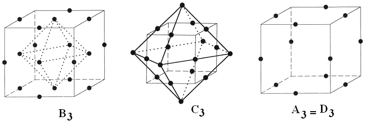 Graphic arrange of the 18 root vectors of the B3 and C3 abd D3 groups